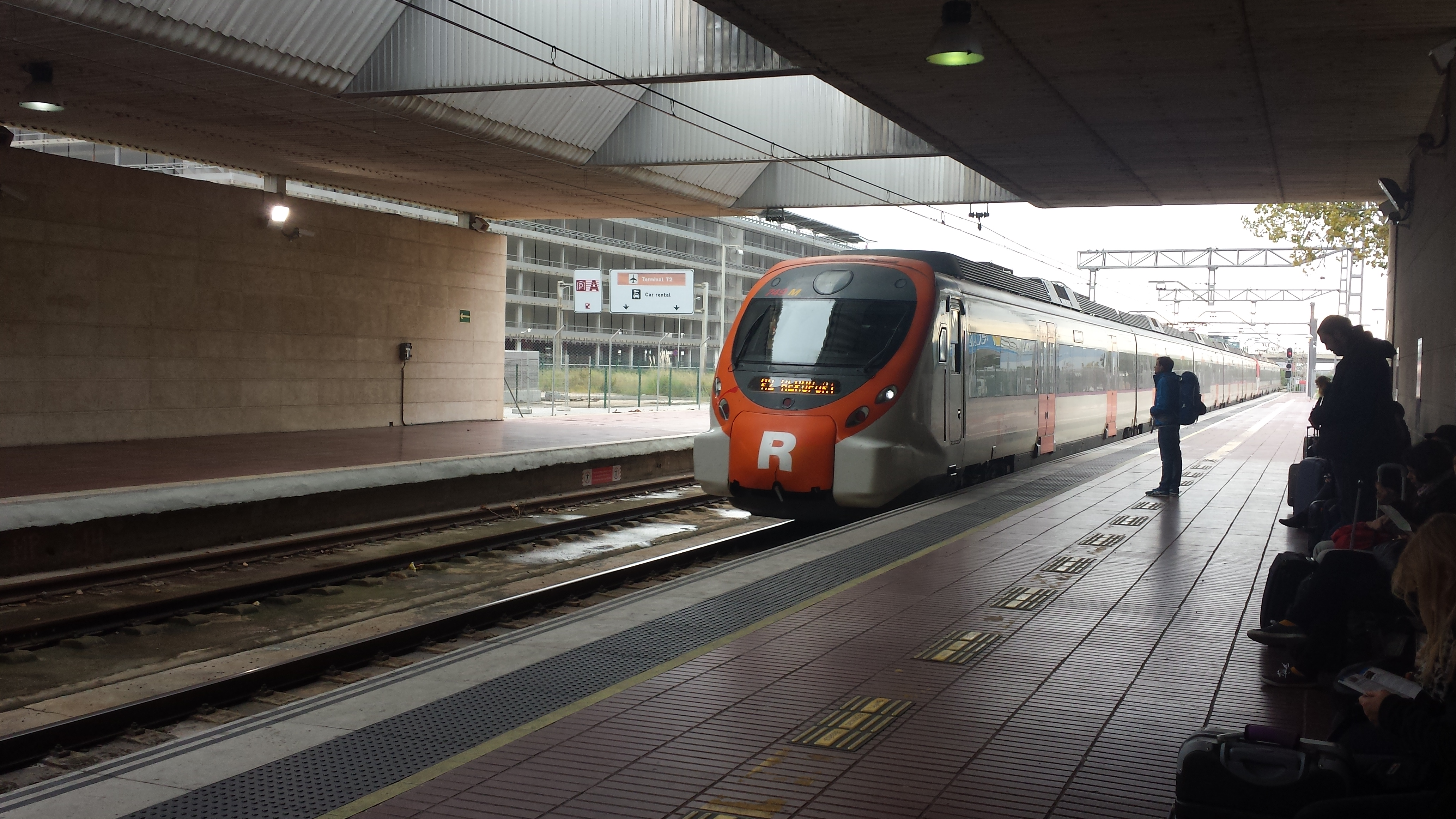 Train entering Barcelona–El Prat Airport railway station